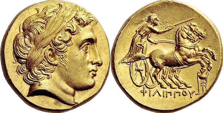 KINGS of MACEDON. Philip II. 359-336 BC. Stater (Gold, 8.65 g 11), Kolophon, 323-317, but probably before 319. Laureate head of Apollo to right, but with the features of Alexander III. Rev. ΦΙΛΙΠΠΟΥ Charioteer driving galloping biga to right, holding the reins in his left hand and a goad with his right; below right, tripod.